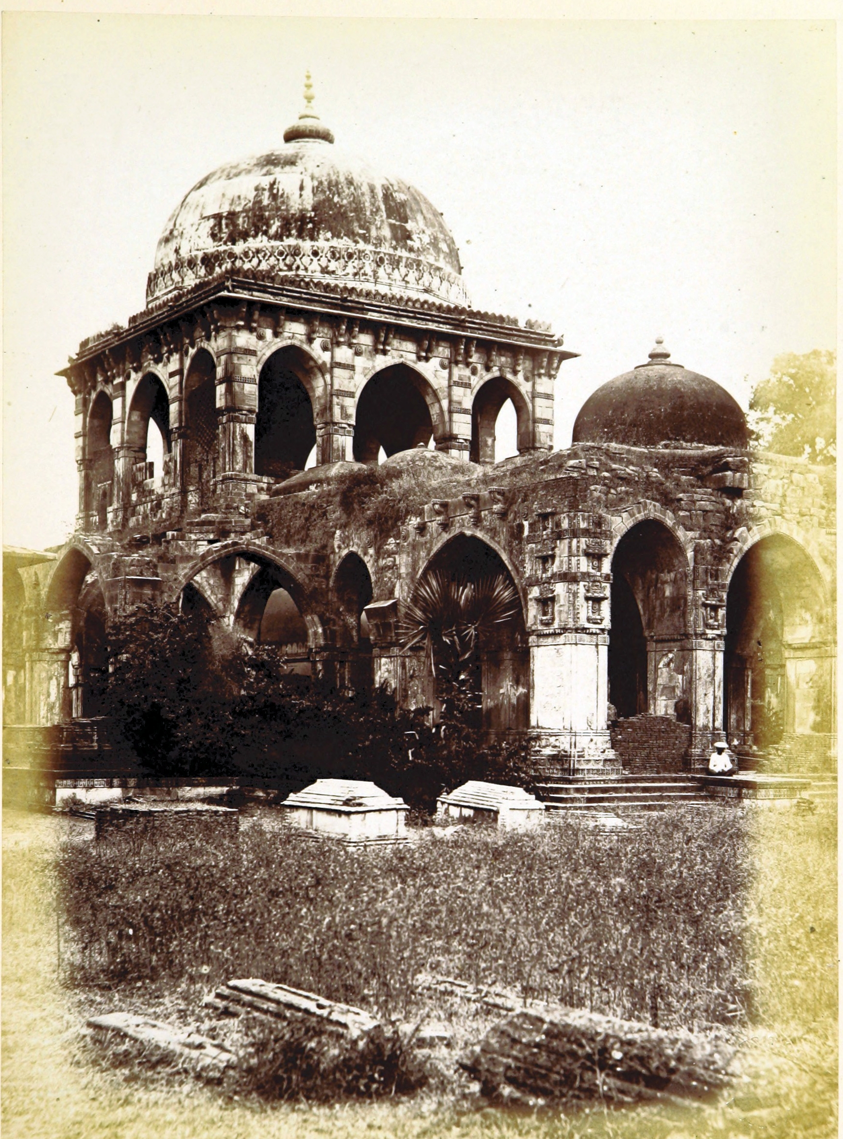 Image taken from: Title: "Architecture at Ahmedabad, the Capital of Goozerat, photographed by Colonel Biggs, ... With an historical and descriptive sketch, by T. C. H., ... and architectural notes by J. Fergusson, etc" Author: HOPE, Theodore Cracraft - Sir, K.C.S.I Contributor: BIGGS, Thomas. Contributor: FERGUSSON, James - Architect Shelfmark: "British Library HMNTS 10057.f.17.", "British Library OC V 6665" Page: 245 Place of Publishing: London Date of Publishing: 1866 Issuance: monographic Identifier: 001730119 Note: The colours, contrast and appearance of these illustrations are unlikely to be true to life. They are derived from scanned images that have been enhanced for machine interpretation and have been altered from their originals. If you wish to purchase a high quality copy of the page that this image is drawn from, please order it here. Please note that you will need to enter details from the above list - such as the shelfmark, the page, the book's volume and so on - when filling out your order. Following this or the link above will take you to the British Library's integrated catalogue. You will be able to download a PDF of the book this image is taken from, as well as view the pages up close with the 'itemViewer'. Click on the 'related items' to search for the electronic version of this work. Click here to see all the illustrations in this book and click here to browse other illustrations published in books in the same year. Please click on the tags shown on the right-hand side for other ways to browse the illustrations.